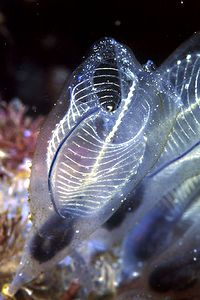 Light-bulb sea squirt (Clavelina lepadiformis)